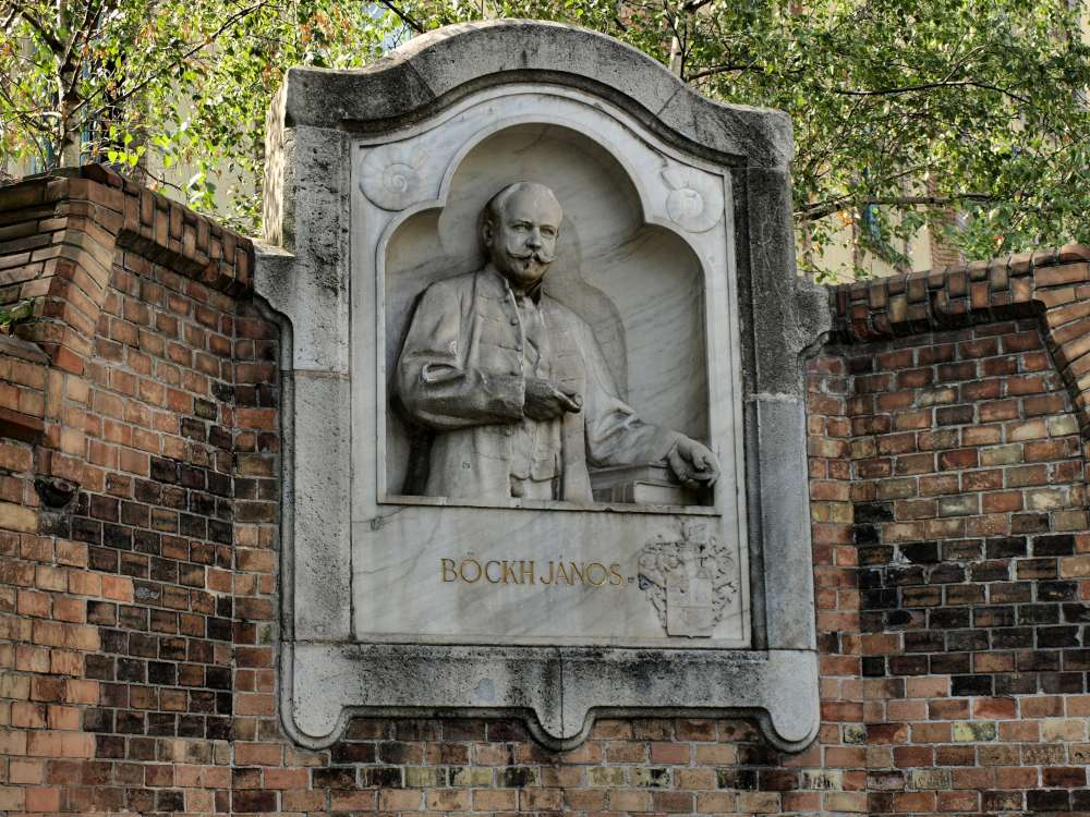 Wall sculpture of János Böckh geologist (Budapest District XIV, Stefánia Street No 14, on the wall of Geological Institute)